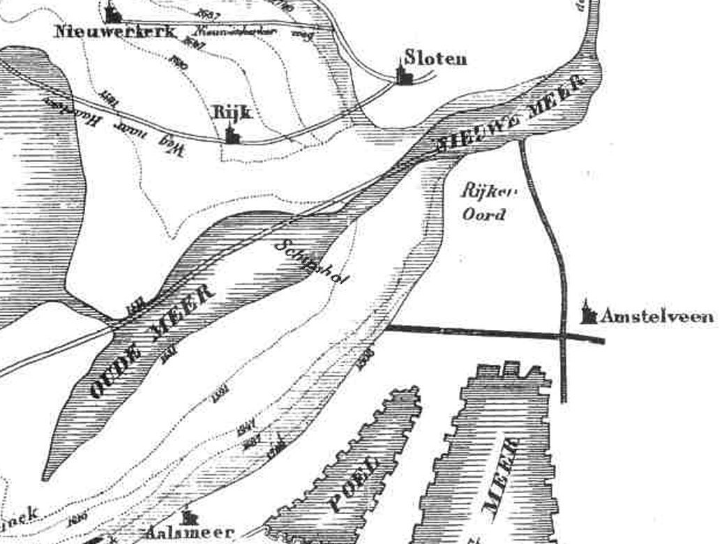 Haarlemmermeer in the middle ages (oude Haarlemmermeer) and the 18th century